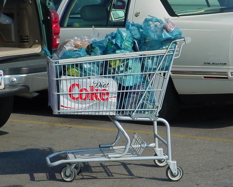 A shopping cart in a Walmart parking lot, filled with plastic grocery bags and a case of Diet Coke cans